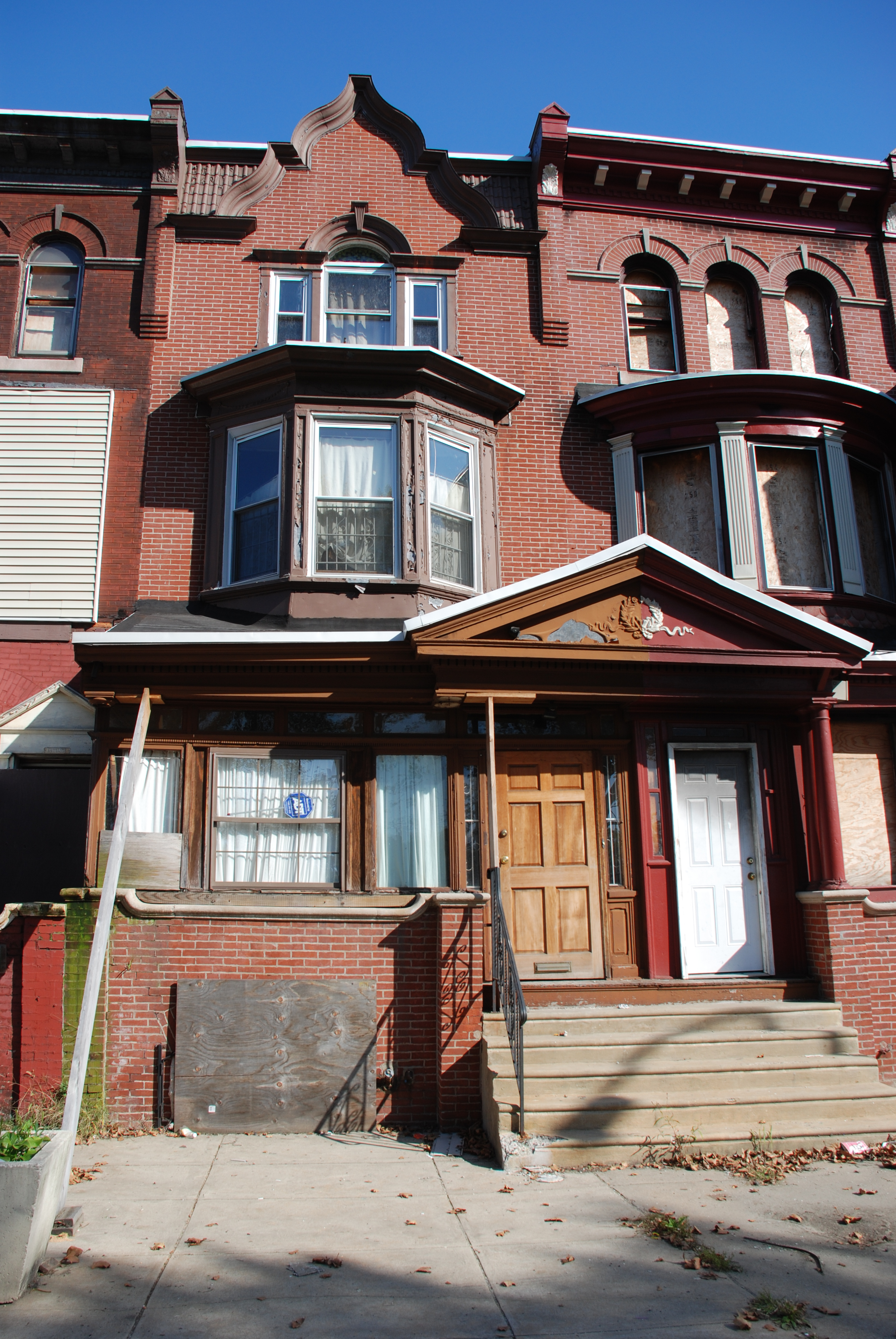 John Coltrane House, 1511 North 33rd Street